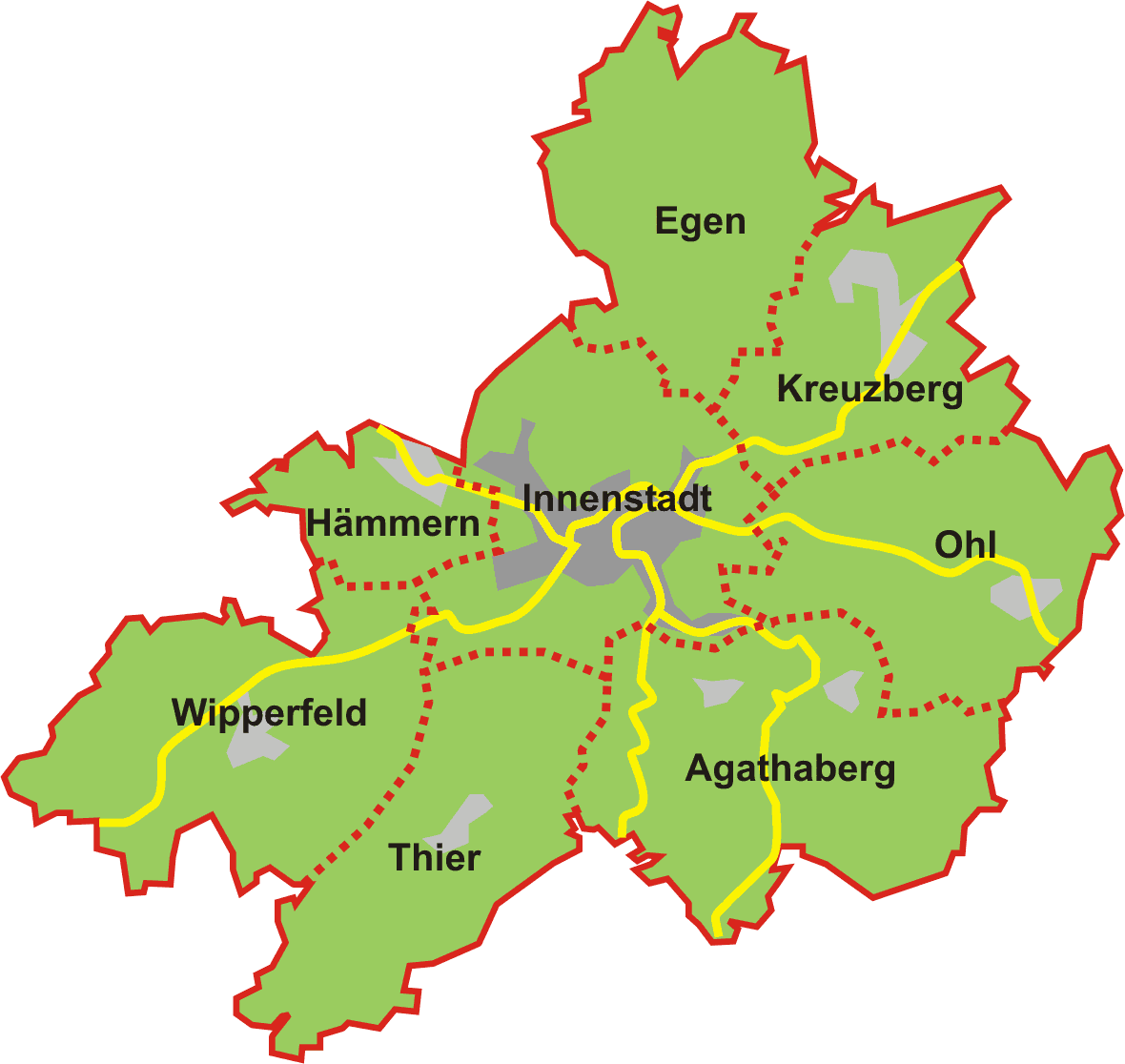 Districts of Wipperfürth created by Benutzer:JensD